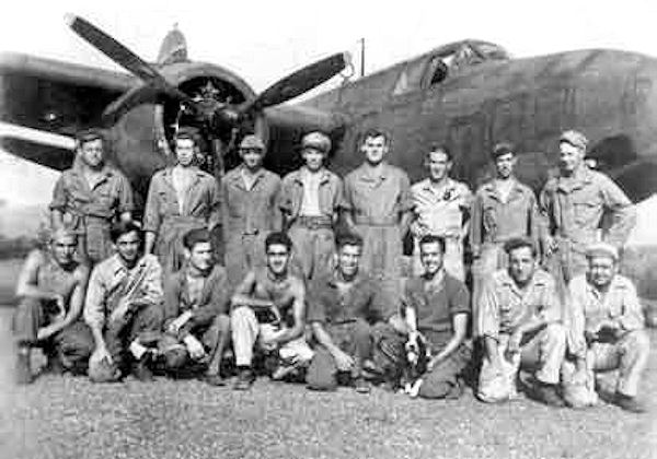 8th Bombardment Squadron - A-20 Hollandia